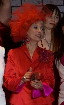 Rita Moreno at the Red Dress Collection charity fashion show to benefit The Heart Truth